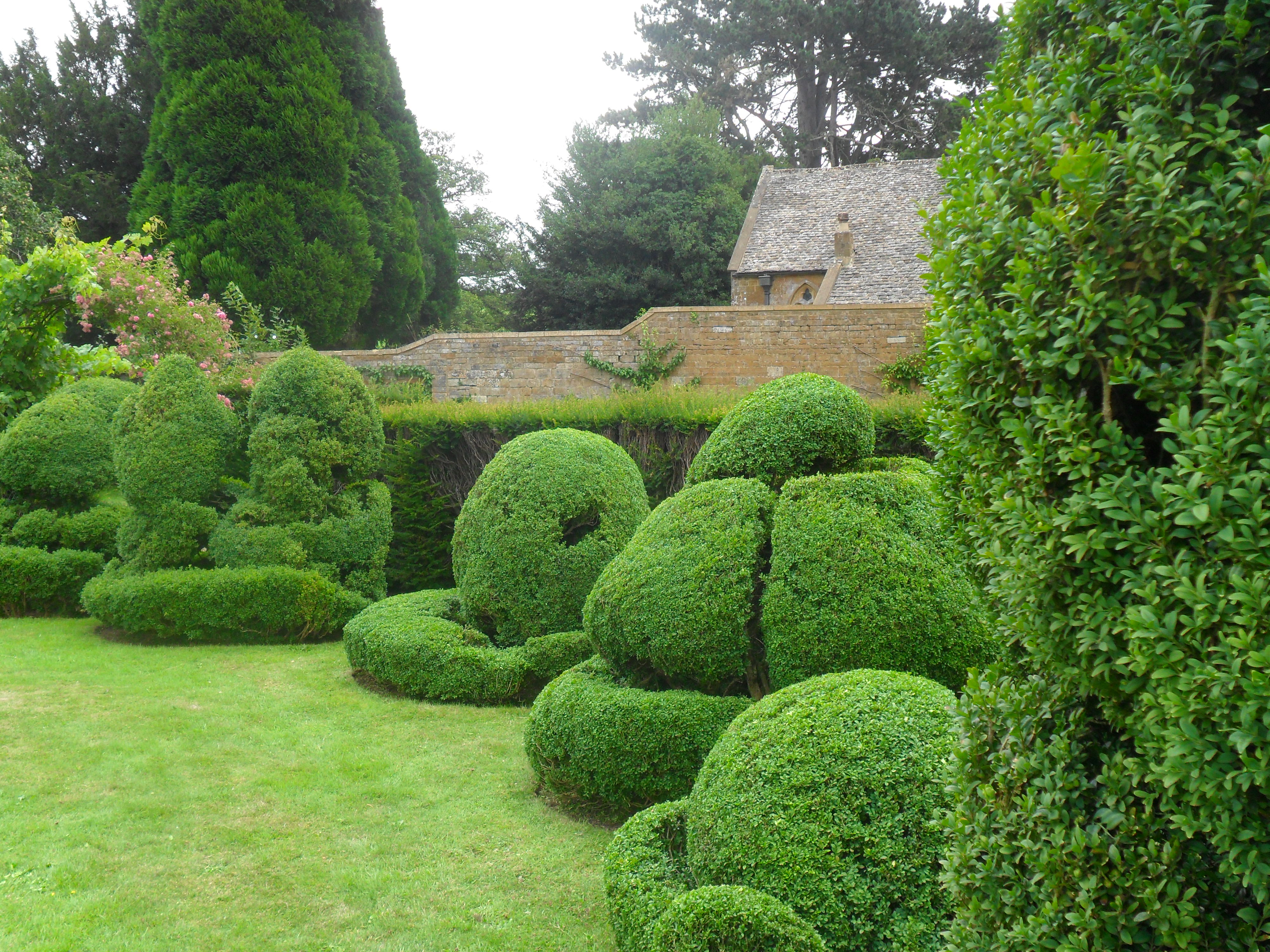 Part of the gardens of Chastleton House, Oxfordshire, with the chancel of St Mary the Virgin parish church in the background